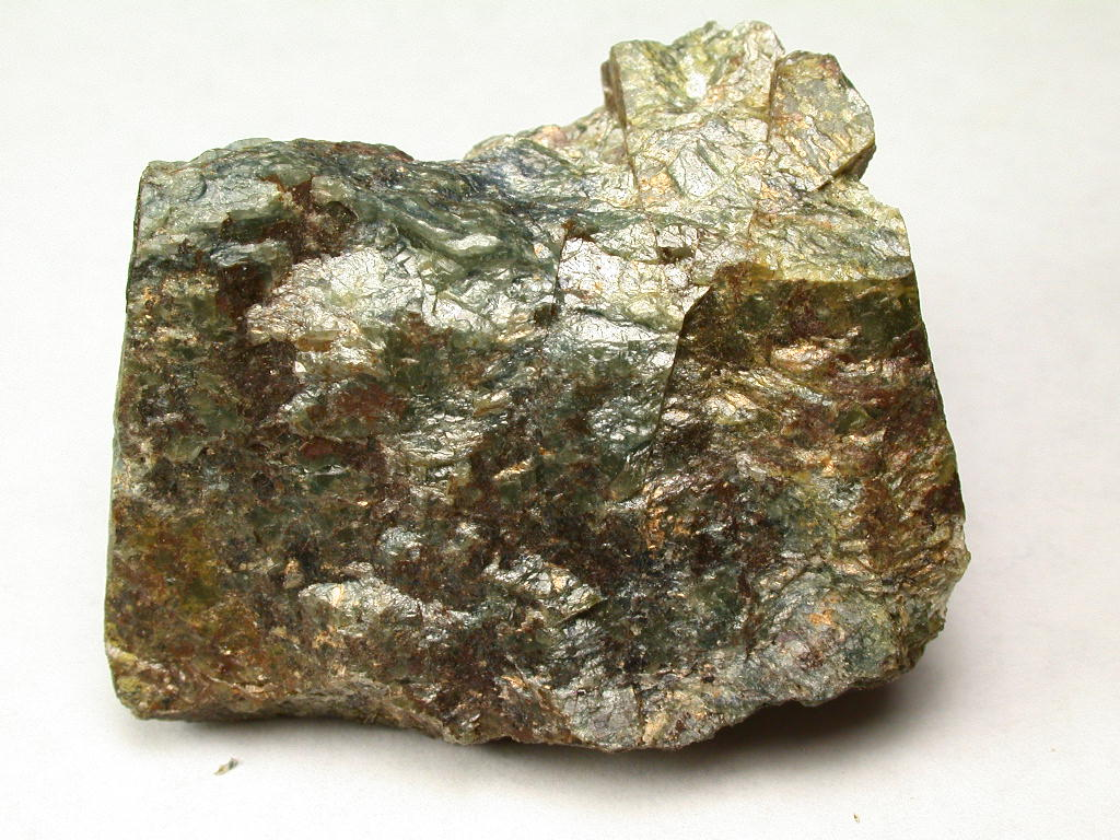 Heterosite Locality: Black Mountain Quarry, Rumford, Oxford County, Maine, USA Dimensions: 48 mm x 42 mm x 18 mm Original description: Greenish brown crystalline masses